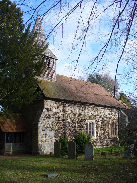 Bisley Parish Church Modern Bisley lies well to the west of the old church. The church was founded in 13th Century and received 19th Century renovation.